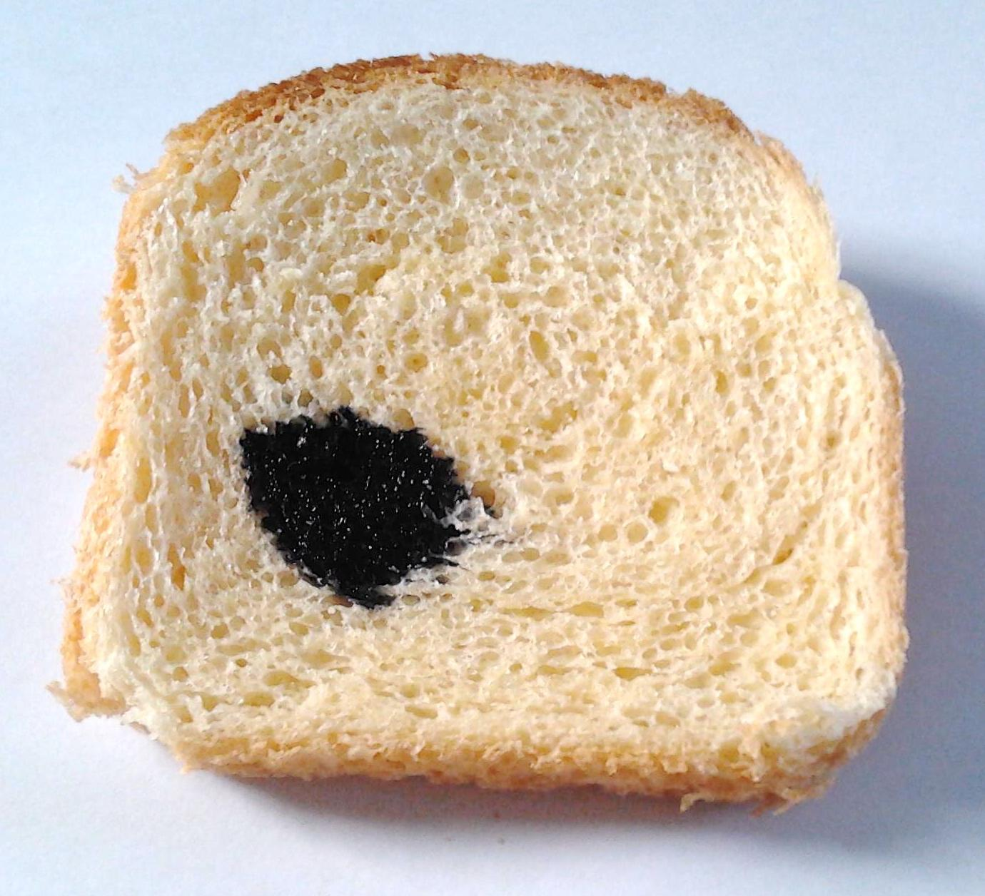 drop of solution containing iodine and potassium iodide on a slice of bread